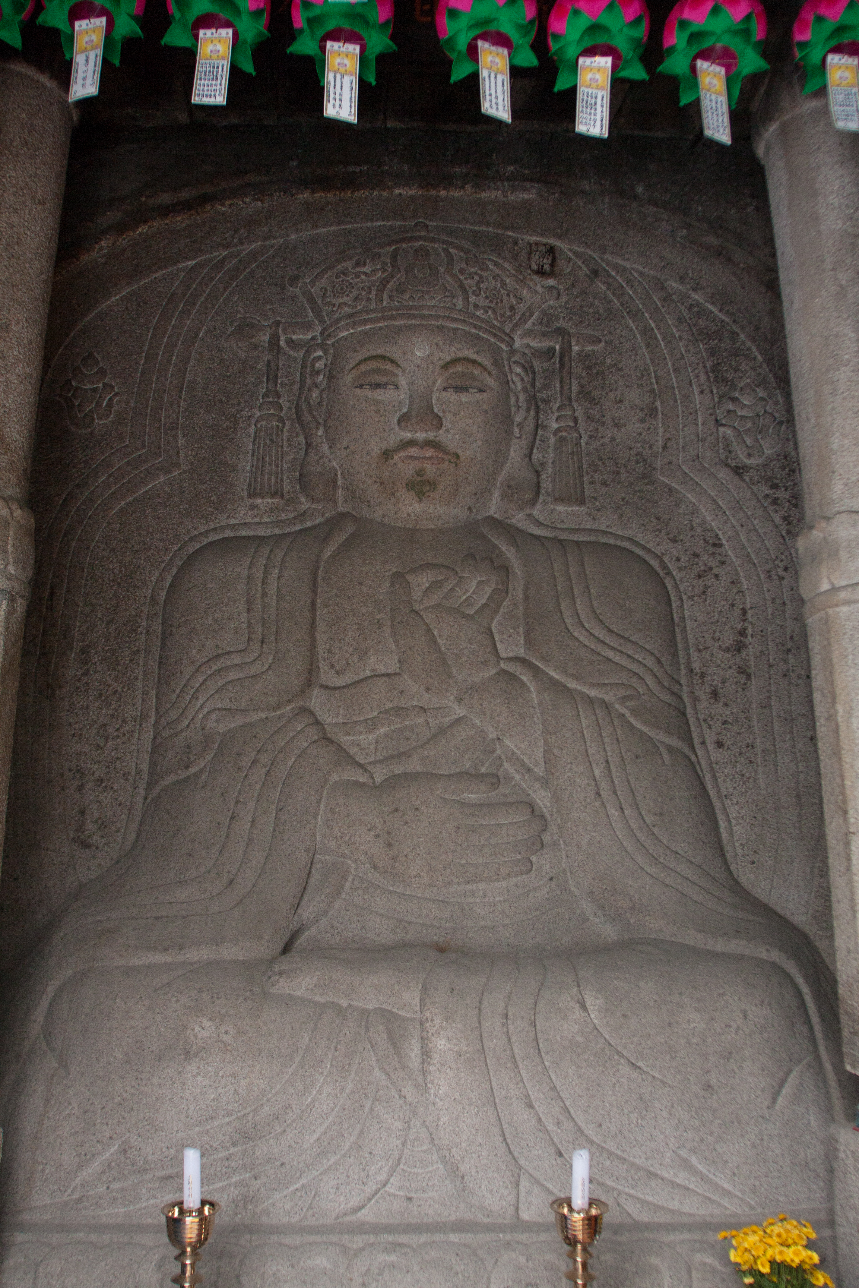 Seated Bodhisattva Carved on the Rock at Anyangam temple in Seoul, Korea